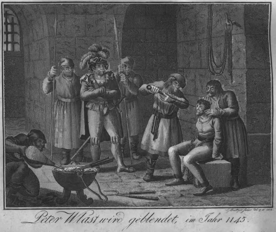 Copperplate portraying a Silesian magnate Piotr Włostowic (died 1153) captured and being blinded by his opponents (1145). An illustration from a monograph of Silesian history, beginning of 19th century.